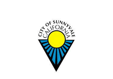 The official city flag of Sunnyvale, California, consisting of the city seal on a blank, opaque background. More information about the flag itself can be found here.